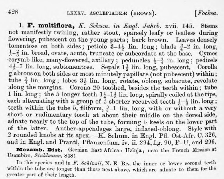 Extract describing Fockea multiflora